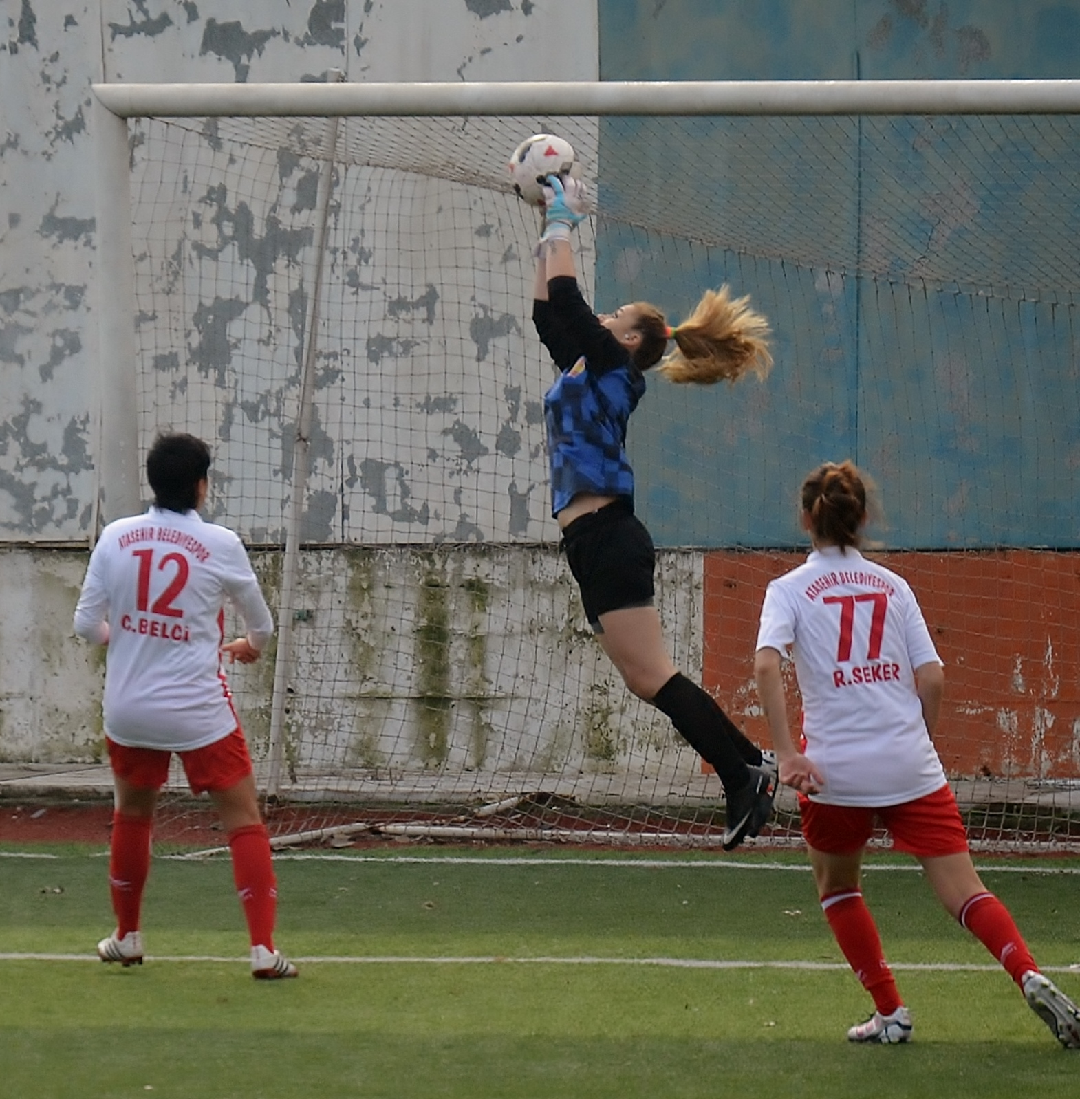 Selda Akgöz playing for Trabzon İdmanocağı (women) in the 2014-15 away match against Ataşehir Belediyespor